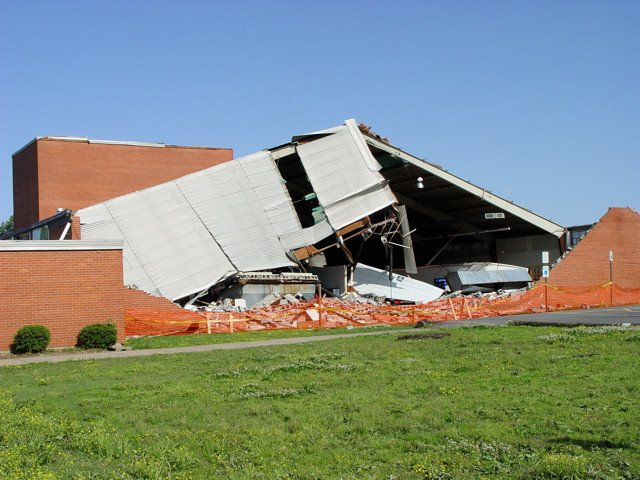 Major damage by a tornado was caused to this gym east of Little Rock on May 10, 2008. The EF3 tornado carved a path of destruction across Lonoke, Prairie and Arkansas Counties with the town of Stuttgart being the hardest hit town by the storm. Courtesy of NWS Little Rock.